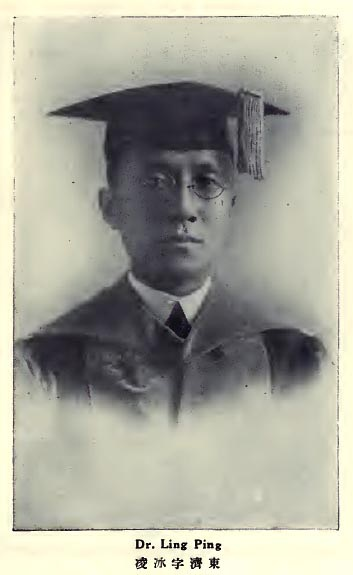 Ling Bing (1894－？)